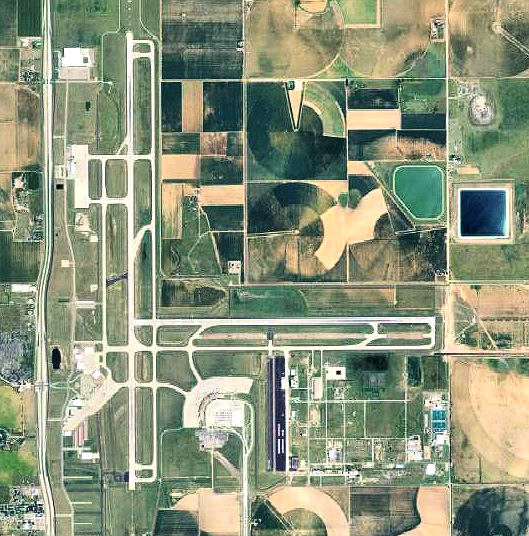 USGS digital orthophoto of Lubbock Preston Smith International Airport in Texas